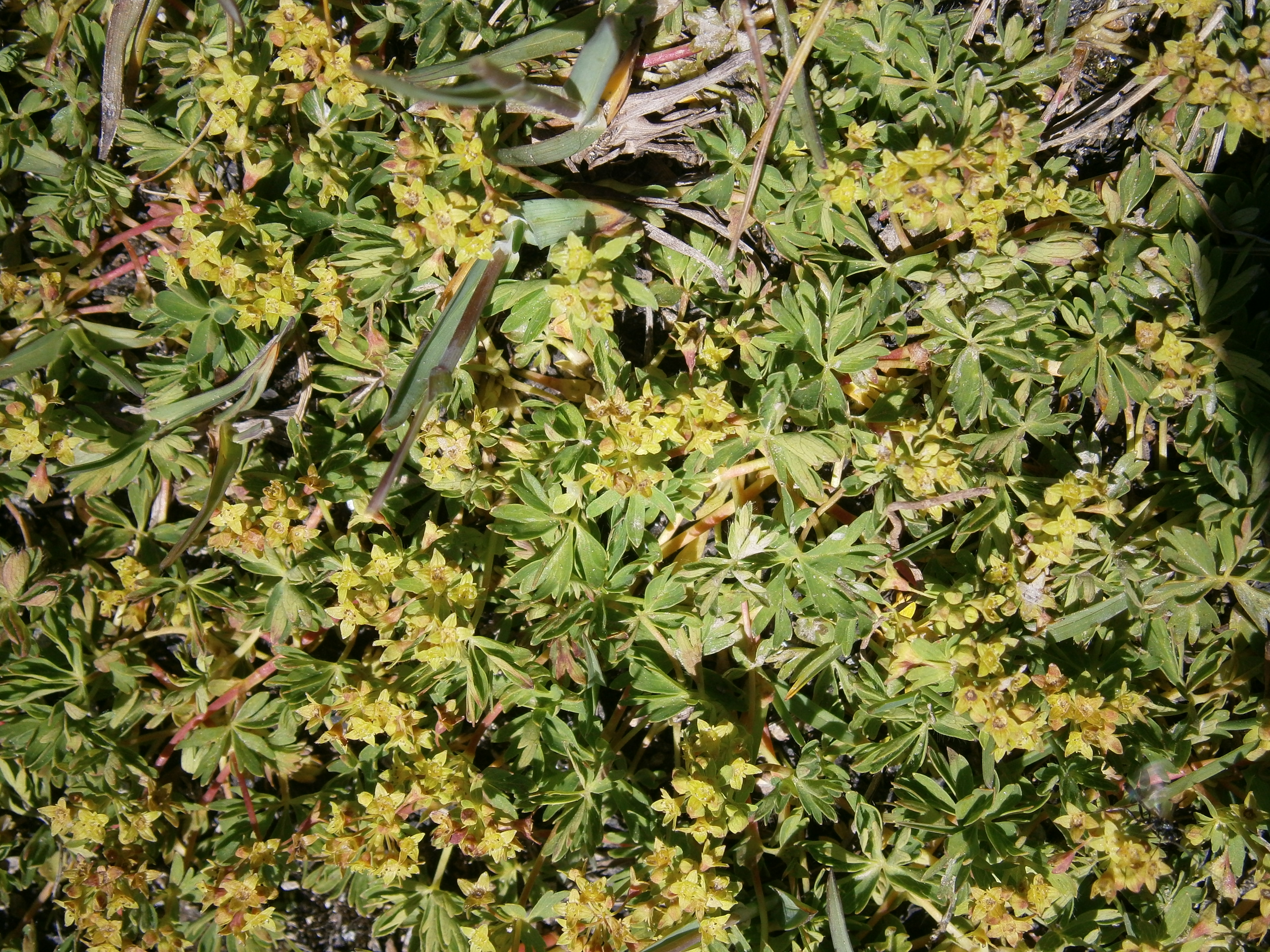 Alchemilla pentaphyllea